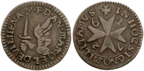 Crusaders, Knights of Malta. Manoel de Vilhena. 1722-1736. Æ Grano (21mm, 3.25 g, 6h). Dated 1726. Maltese cross Winged arm left, holding sword upright. Restelli 135; KM 140. Near VF, brown patina.